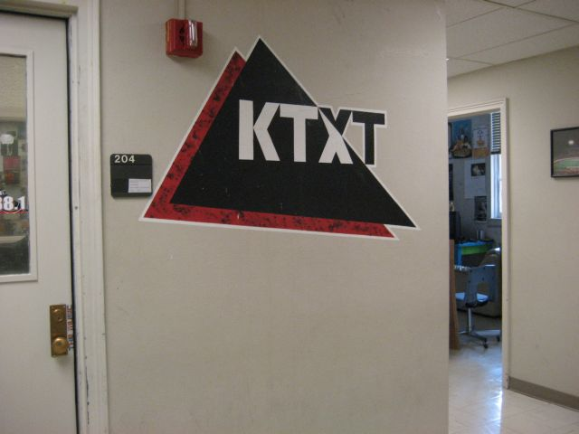 Photo of the KTXT studio.